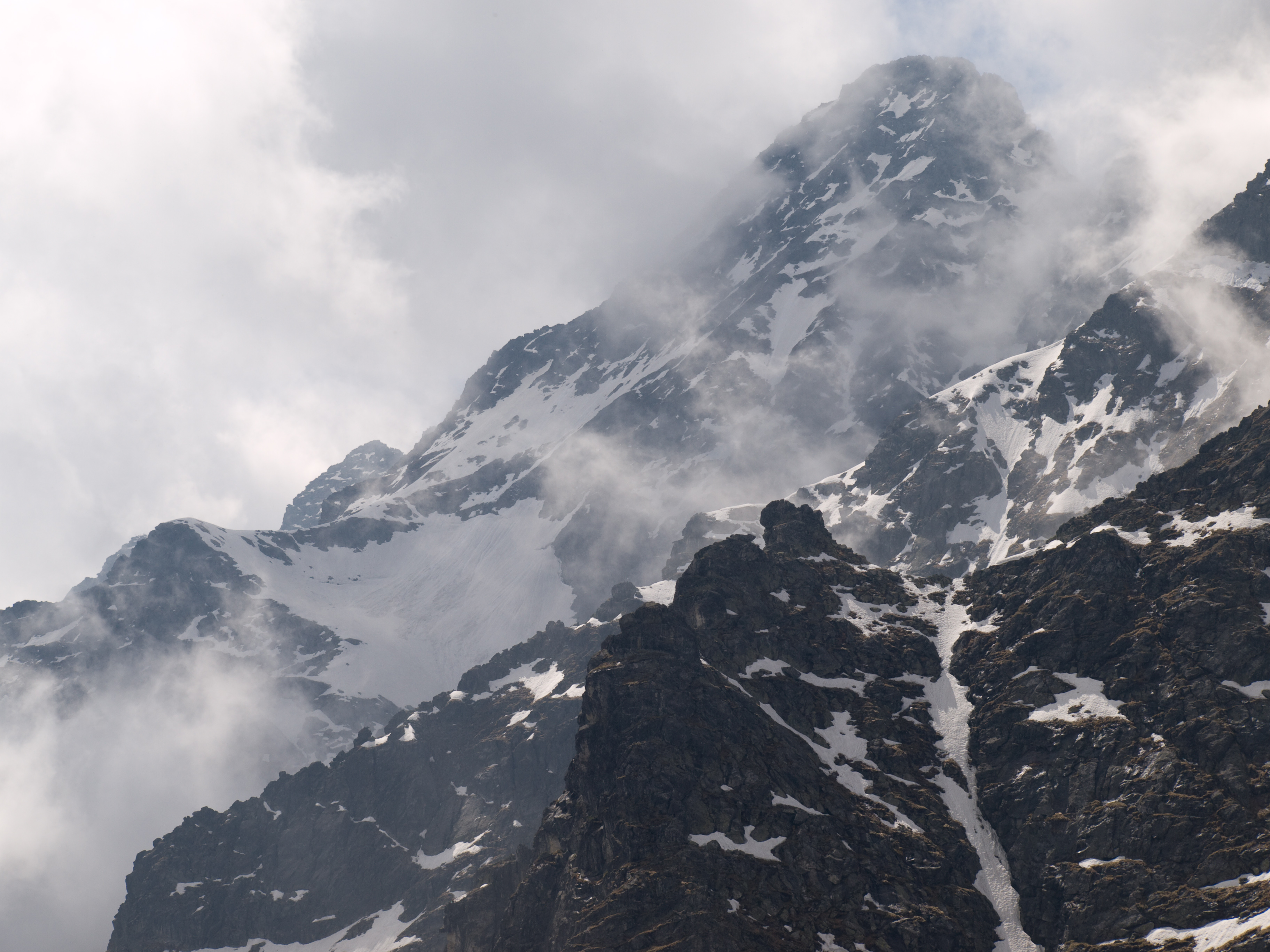 Turnia Zwornikowa (closer) and Czarny Mięguszowiecki Szczyt (in the distance).